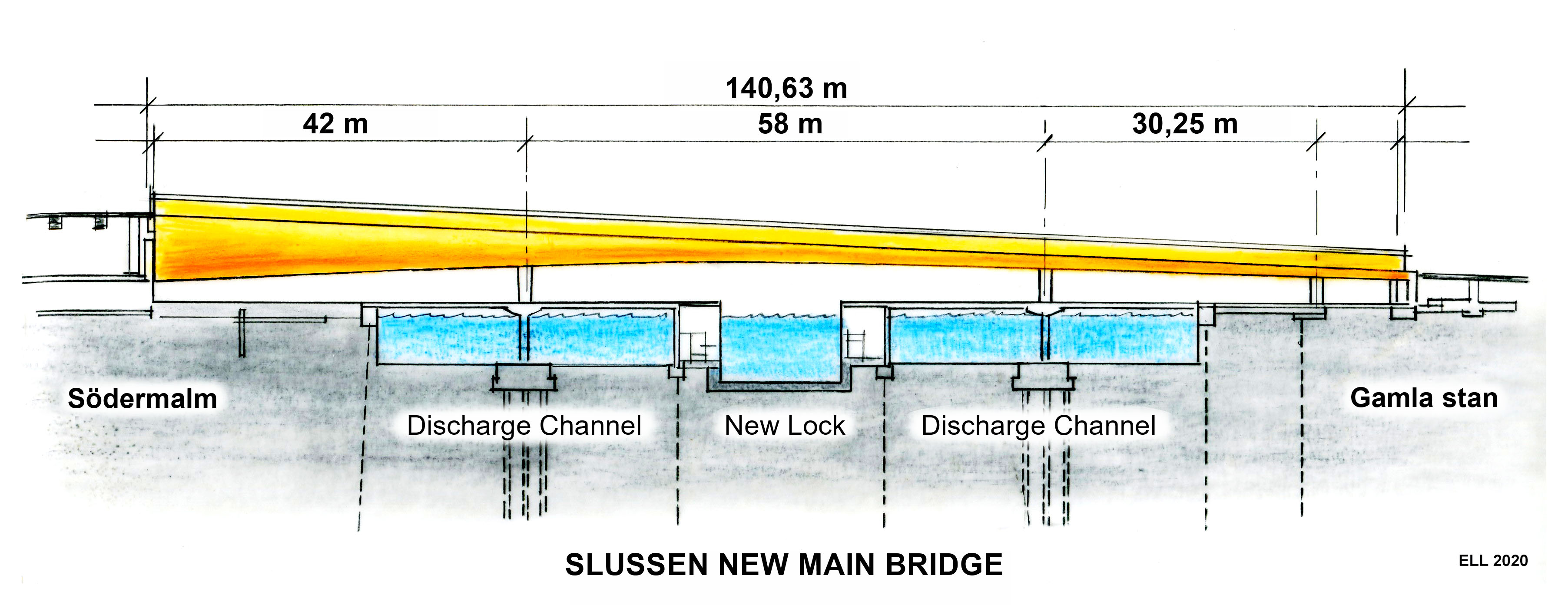 Slussen New Main Bridge, Stockholm, Sweden. Also known as Guldbron "Gold Bridge". The bridge crosses between Old Town and Södermalm over the new lock (Nya Slussen) on Söderström between Lake Mälaren and the Baltic Sea. Image shows a side view of the bridge including dimensions, and the layout of the new lock and discharge channels